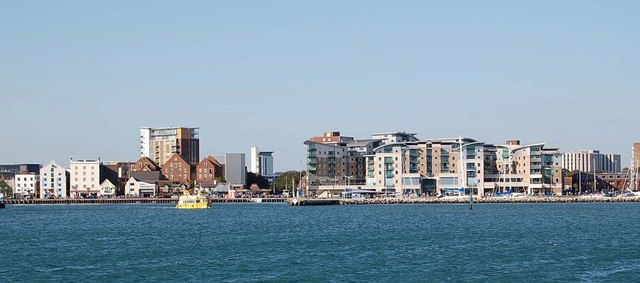 Approaching Poole Quay, Dorset